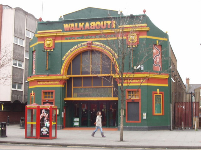 Australian bar at Shepherd's Bush "Take the finest kangaroo and crocodile fillets, add a pinch of rare Aboriginal spices, and wash it down with some genuine Aussie beers. Then spend the evening partying to great live bands or catch all the live sports action on a cinema-style big screen." That's what the Walkabout website said. Address56 Shepherd's Bush Green, London W12 8QE